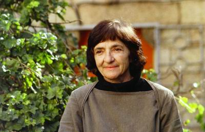 Photograph